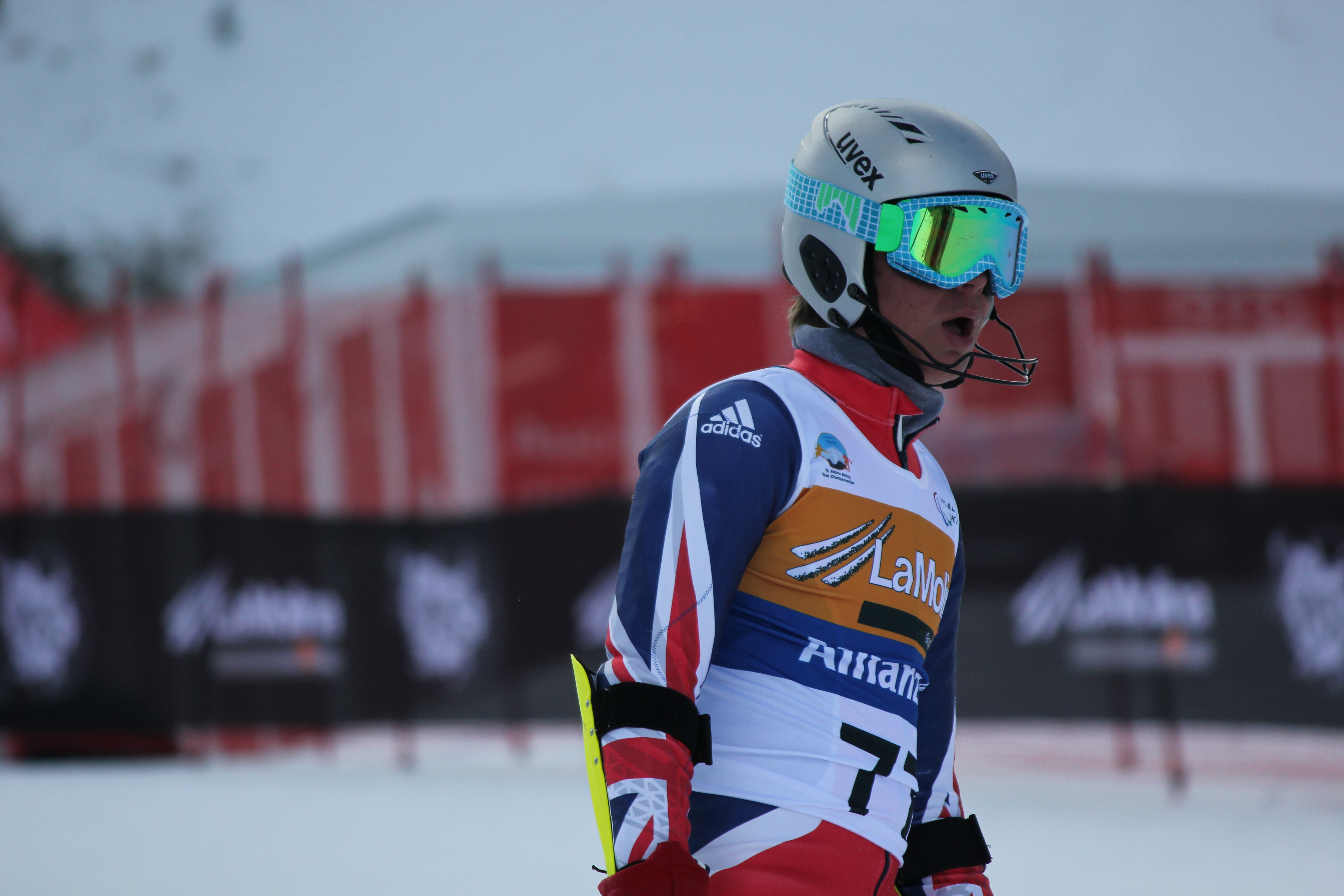 2013 IPC Alpine World Championships at La Molina in Spain. Day 3 of competition. Slalom final. James Whitley of GBR 2